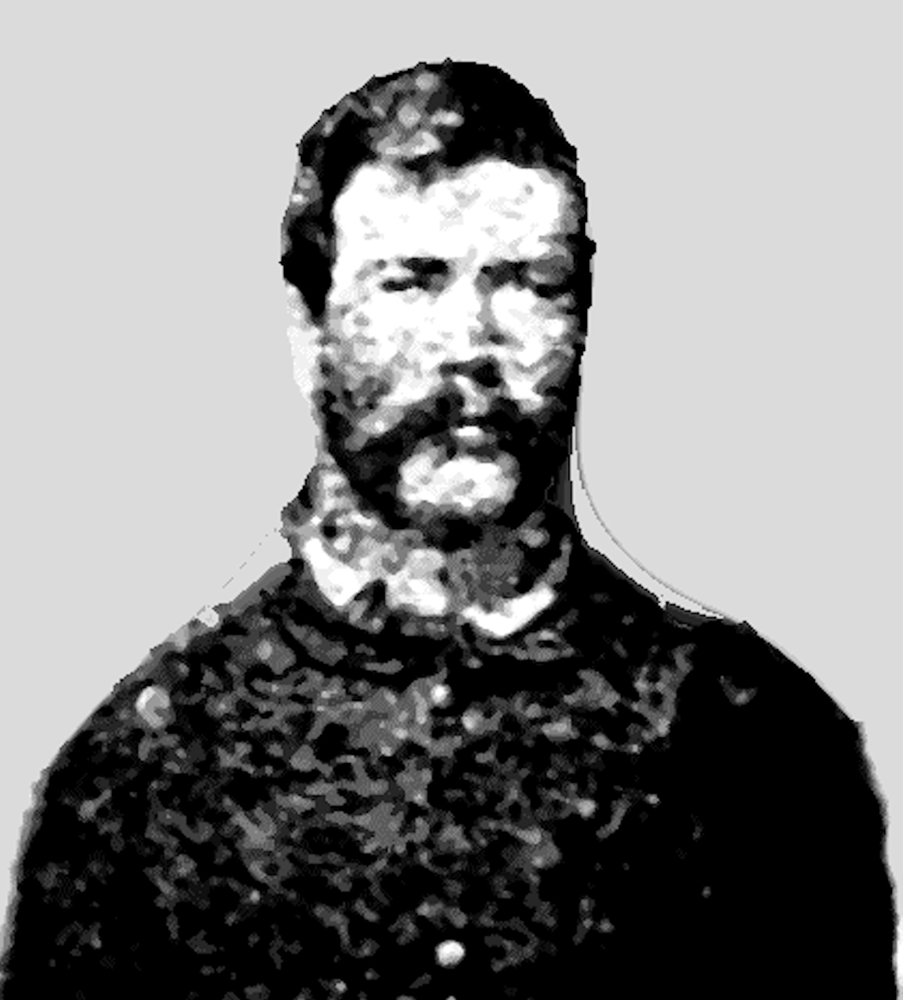 Medal of Honor winner